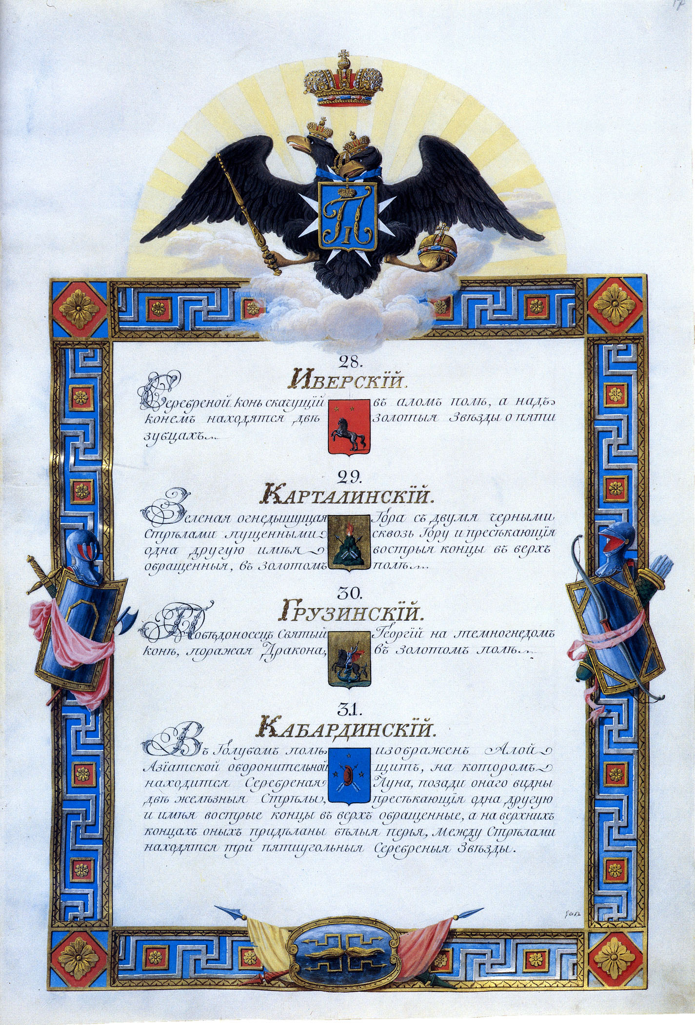 Coats of arms of "Iveria", "Kartalinia", "Gruziya" (official designation of the kingdom of Georgia as part of the Russian Empire) within the Great COA of the Russian Empire of 1800.